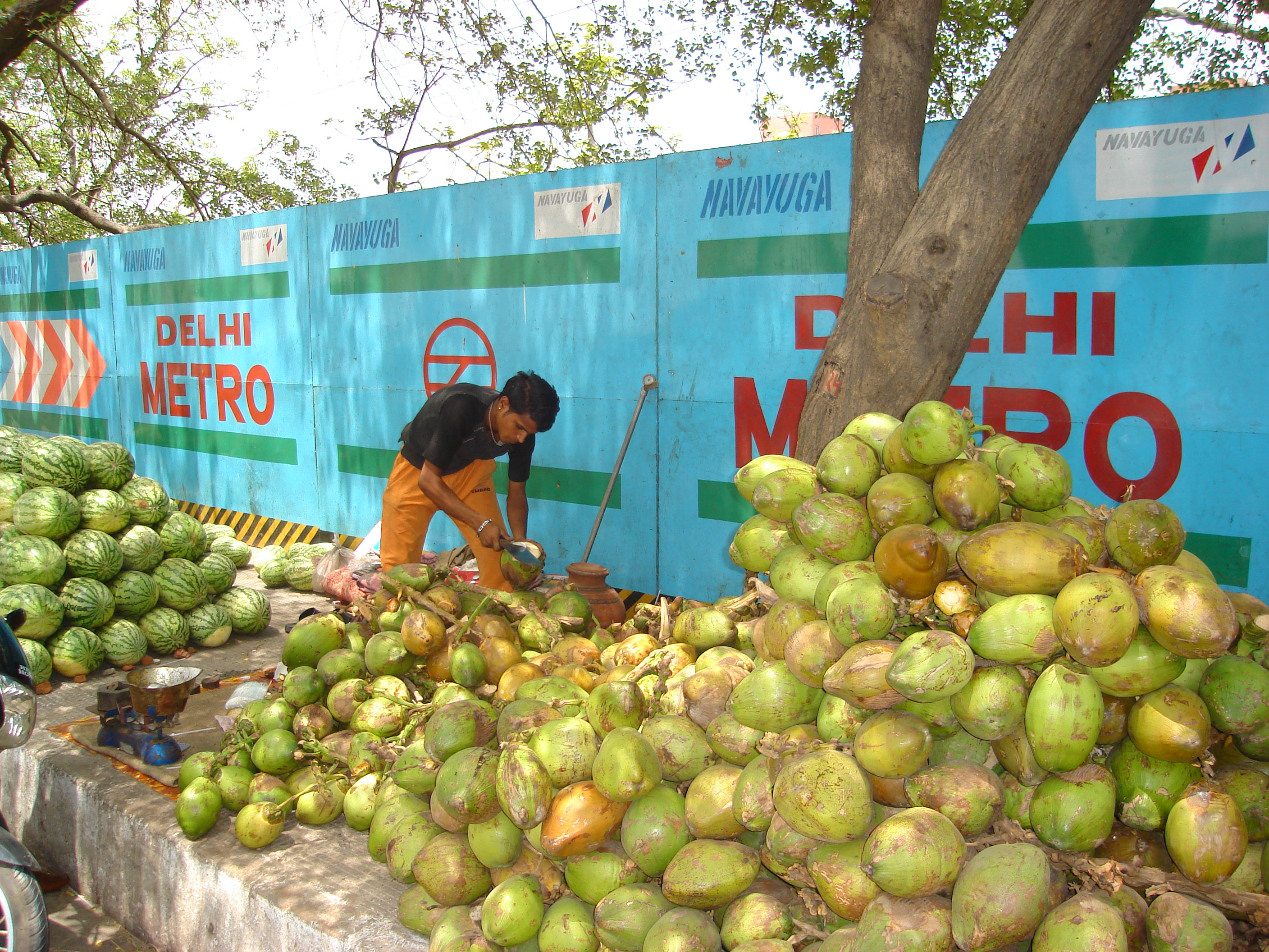 A Green Coconut Vendor at Mayur Vihar in Delhi, India in Summer 2007 (25th May 2007). The coconut water and its soft flesh are a delicacy in a hot country like India.